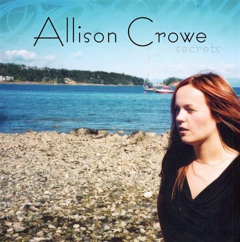 Secrets - Allison Crowe 2004 album cover artwork; photo by Adrian du Plessis; all rights held by Allison Crowe Music Management, and freely released; also available on the web @ Any questions - please